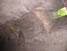 Criptoportic